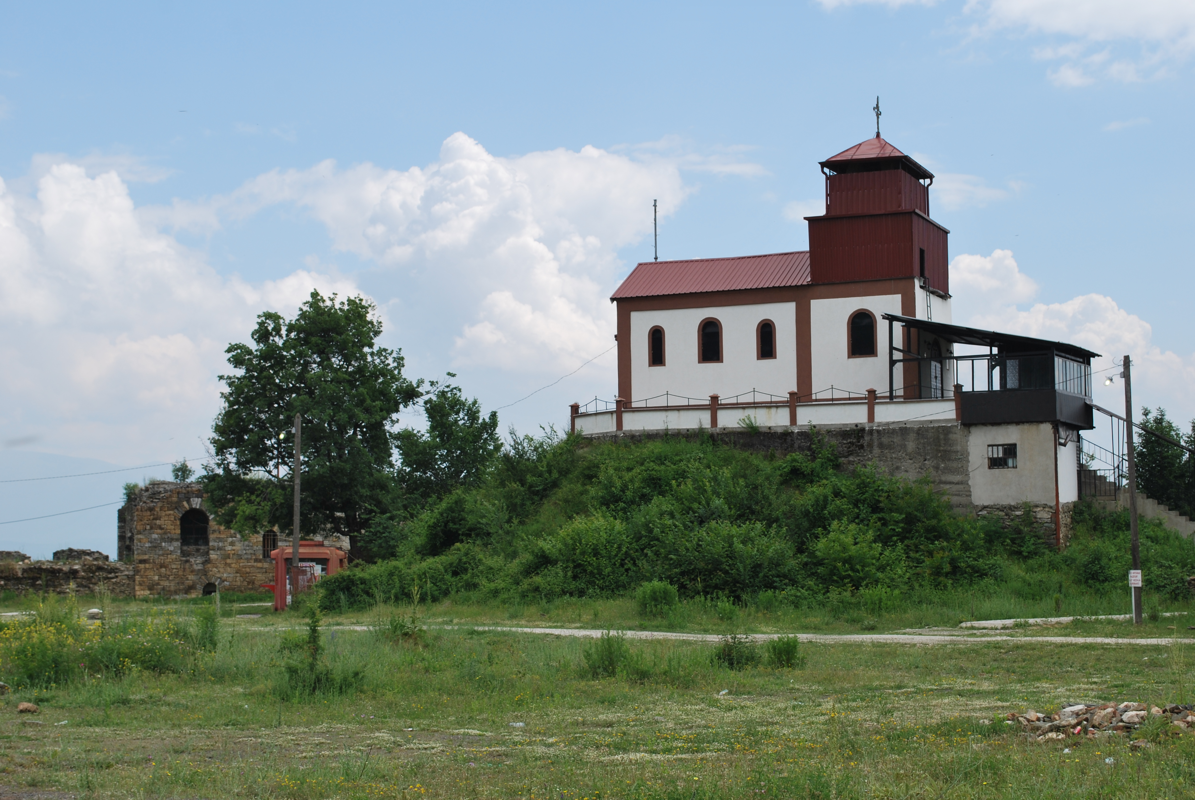 St. Athanasius Church in Tetovo, Macedonia